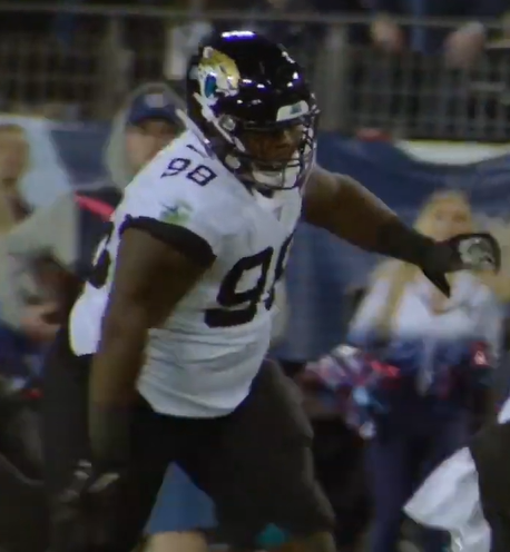 Dontavius Russell 2019. Image from video Derrick Henry Stiff-Arms Way to 74-yard Score | Touchdown Tuesday, ~ 00:09